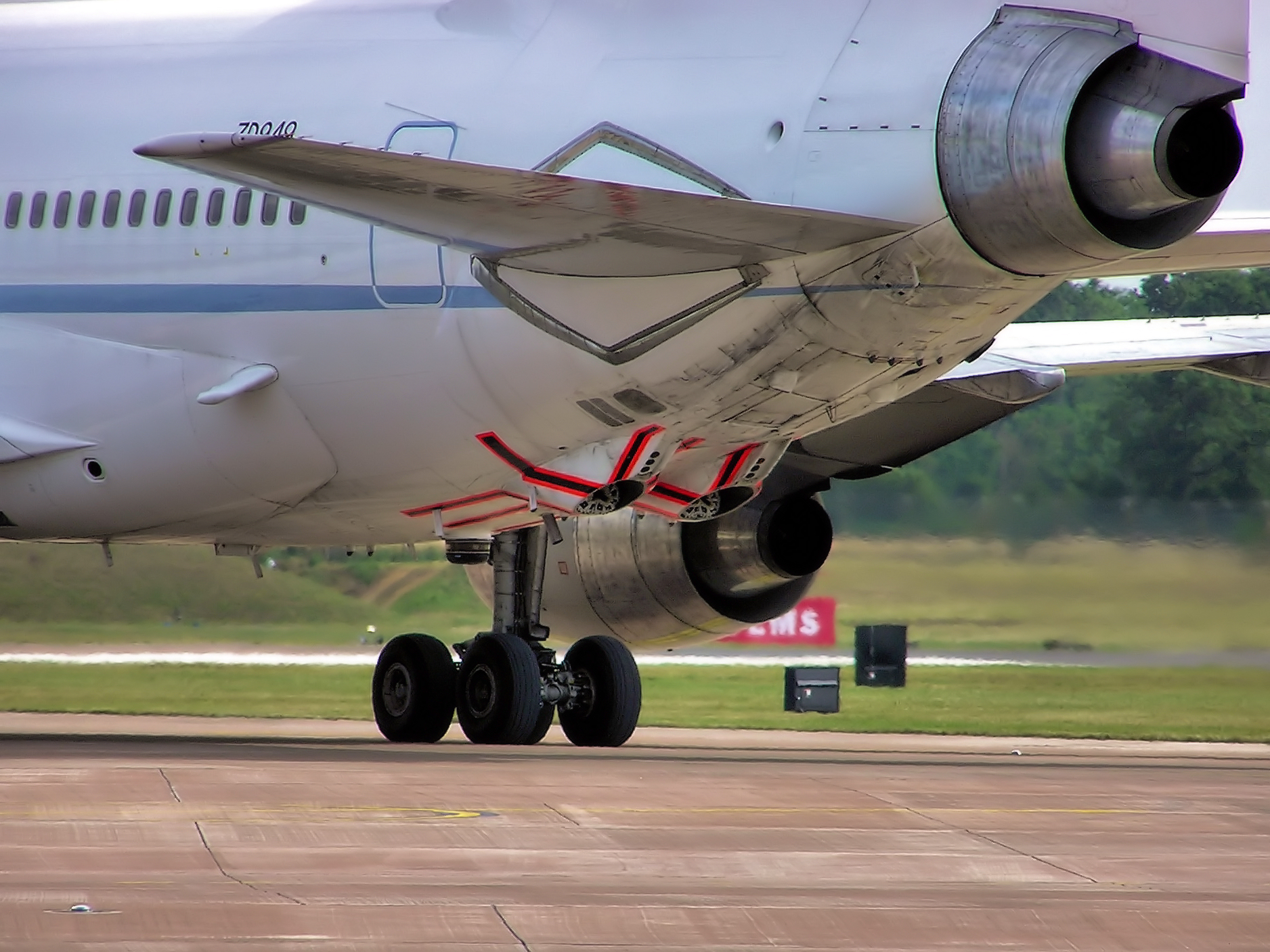 Royal Air Force Lockheed Tristar K1 (ZD949) at Fairford Air Show, Gloucestershire, England.